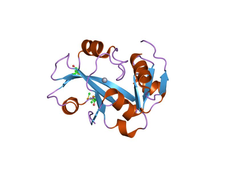 Cartoon representation of the molecular structure of protein registered with 1dbu code.